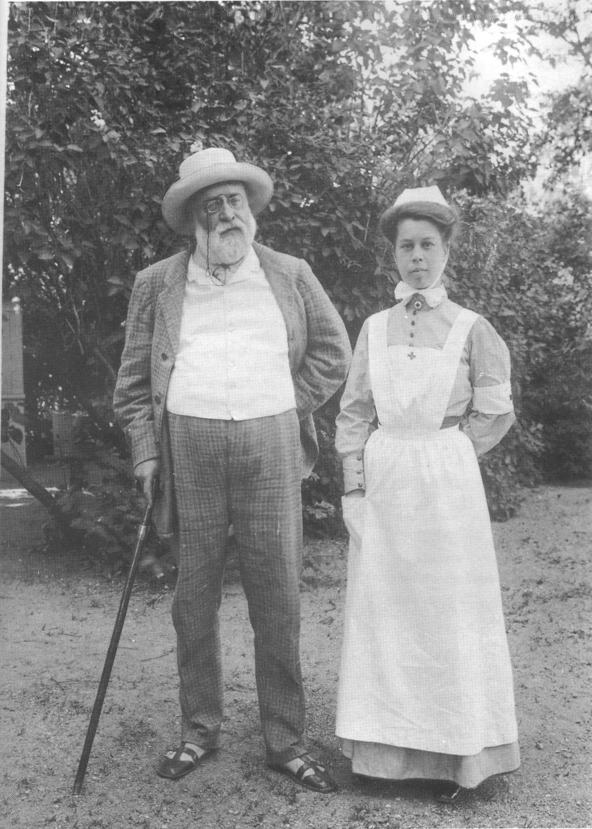 Author Gustaf Fröding with his nurse Signe Trotzig in Gröndal in August 1910, before his 50th birthday